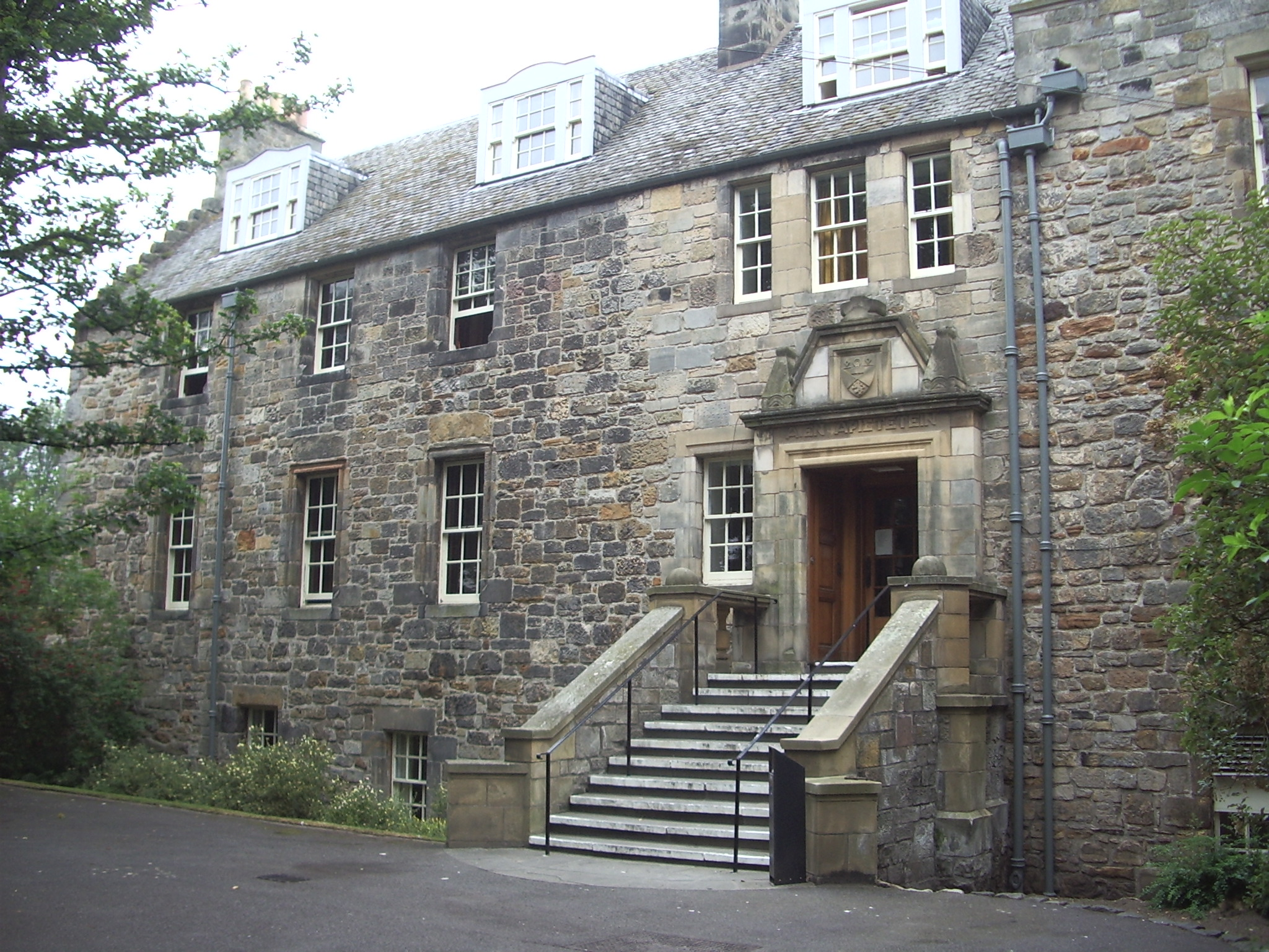 The Hall of Residence for Postgraduate students at the University of St Andrews